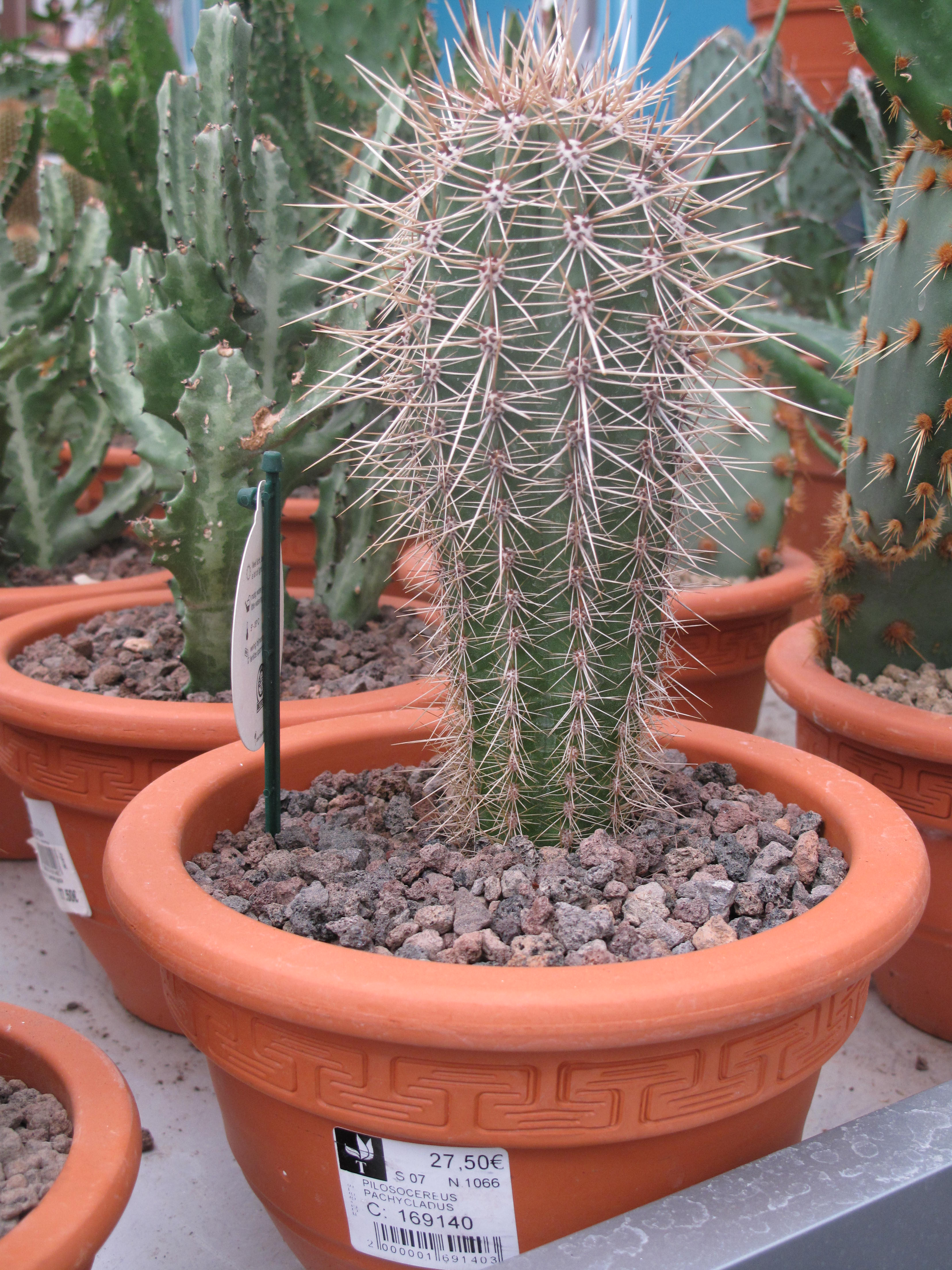 Pilosocereus pachycladus in a garden centre. Identified by its commercial botanic label.